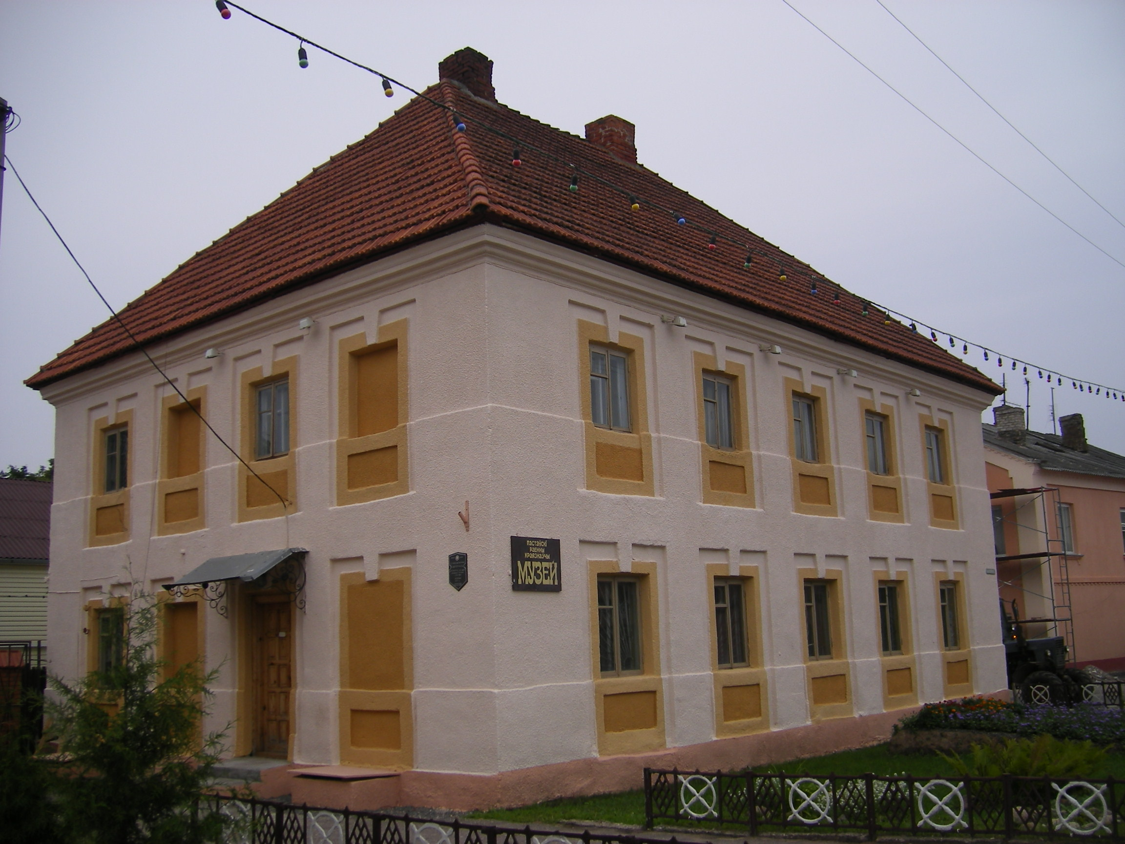 Pastavy, Museum in the Main Square